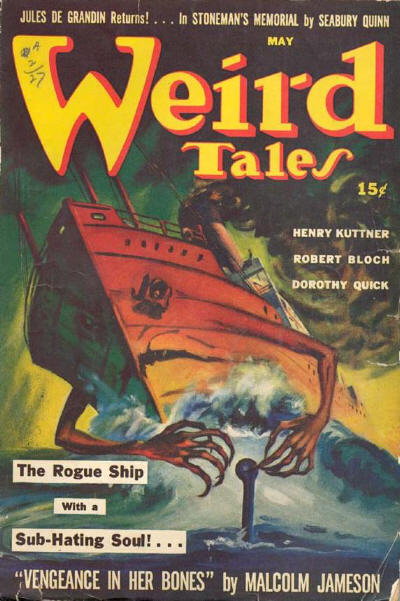 Cover of the pulp magazine Weird Tales (May 1942, vol. 36, no. 5) featuring Vengeance in Her Bones by Malcolm Jameson. Cover art by Ray Quigley.